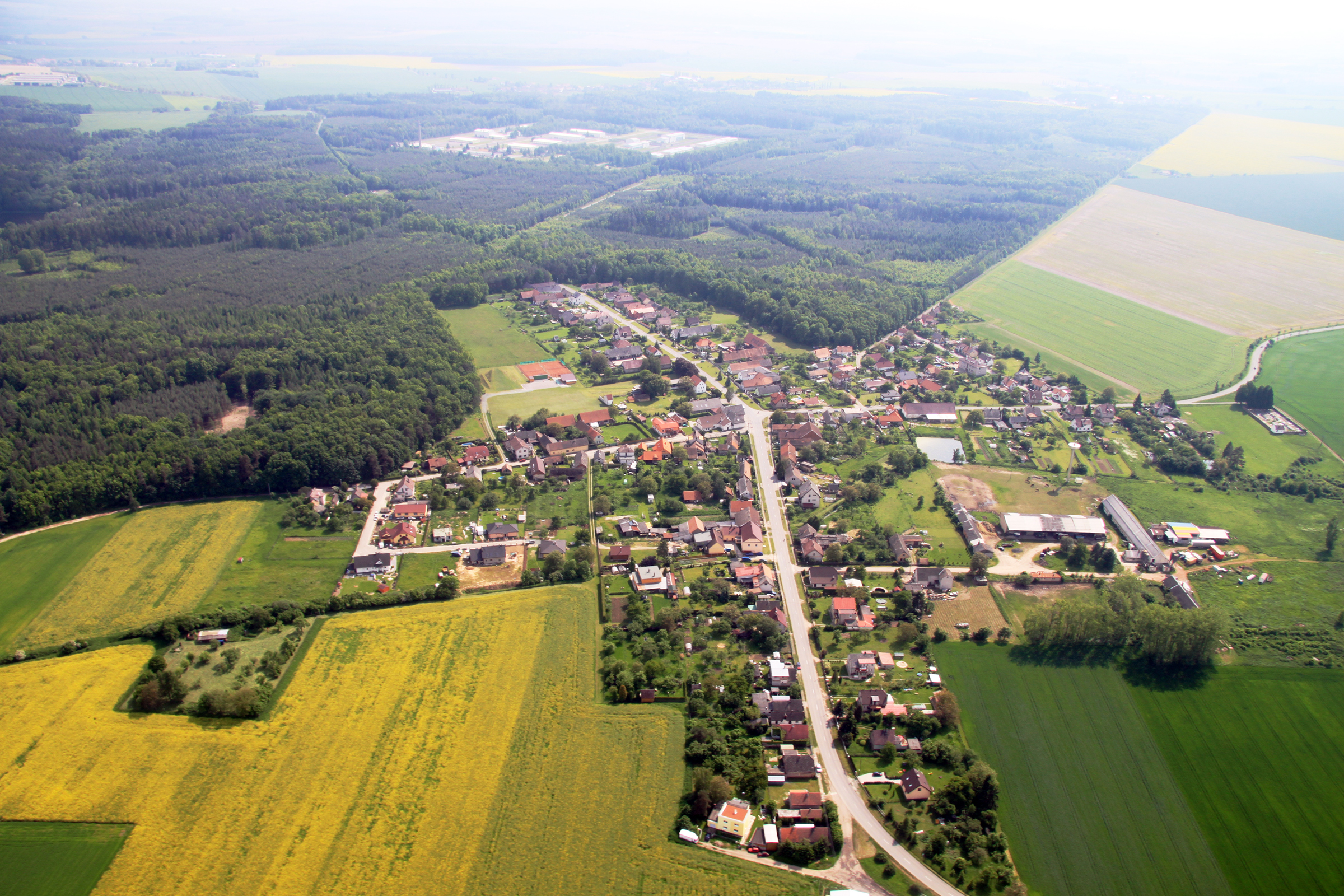 Village Nový Ples near of town Jaroměř from air, eastern Bohemia, Czech Republic